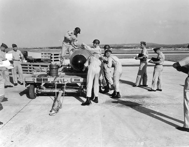 USAF photo #109807 shows Mark 7 bomb (not identified as a nuclear weapon) being readied for mounting by members of the 8th Tactical Fighter Wing at Kadena Air Base, Okinawa, during 1st Annual Pacific Air Force Munitions Loading Competition, October 23, 1962 (Photo taken by 1352nd Photo Group).